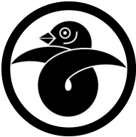 Japanese Crest, knotted lesser white-fronted goose in the circle